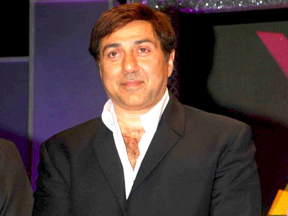 Sunny deol 2012